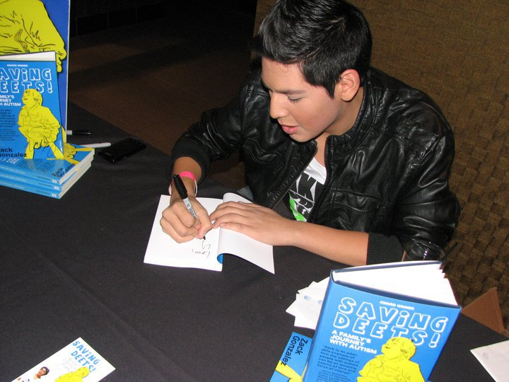 Zack Gonzalez Book Signing in Pasadena, CA in November 2011.